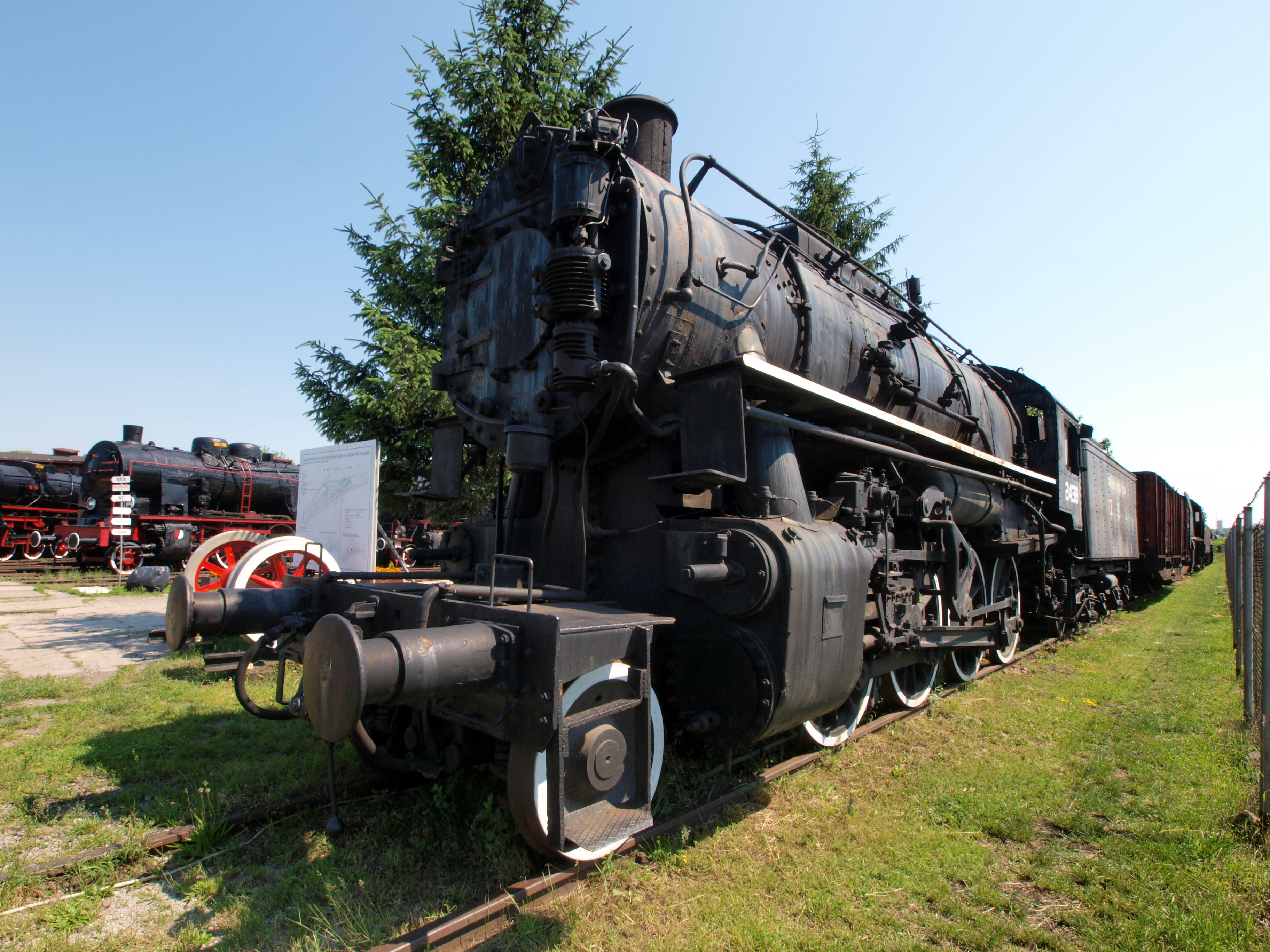 US Army Class S160 No.2438 at the Museum of Industry and Railway in Lower Silesia.